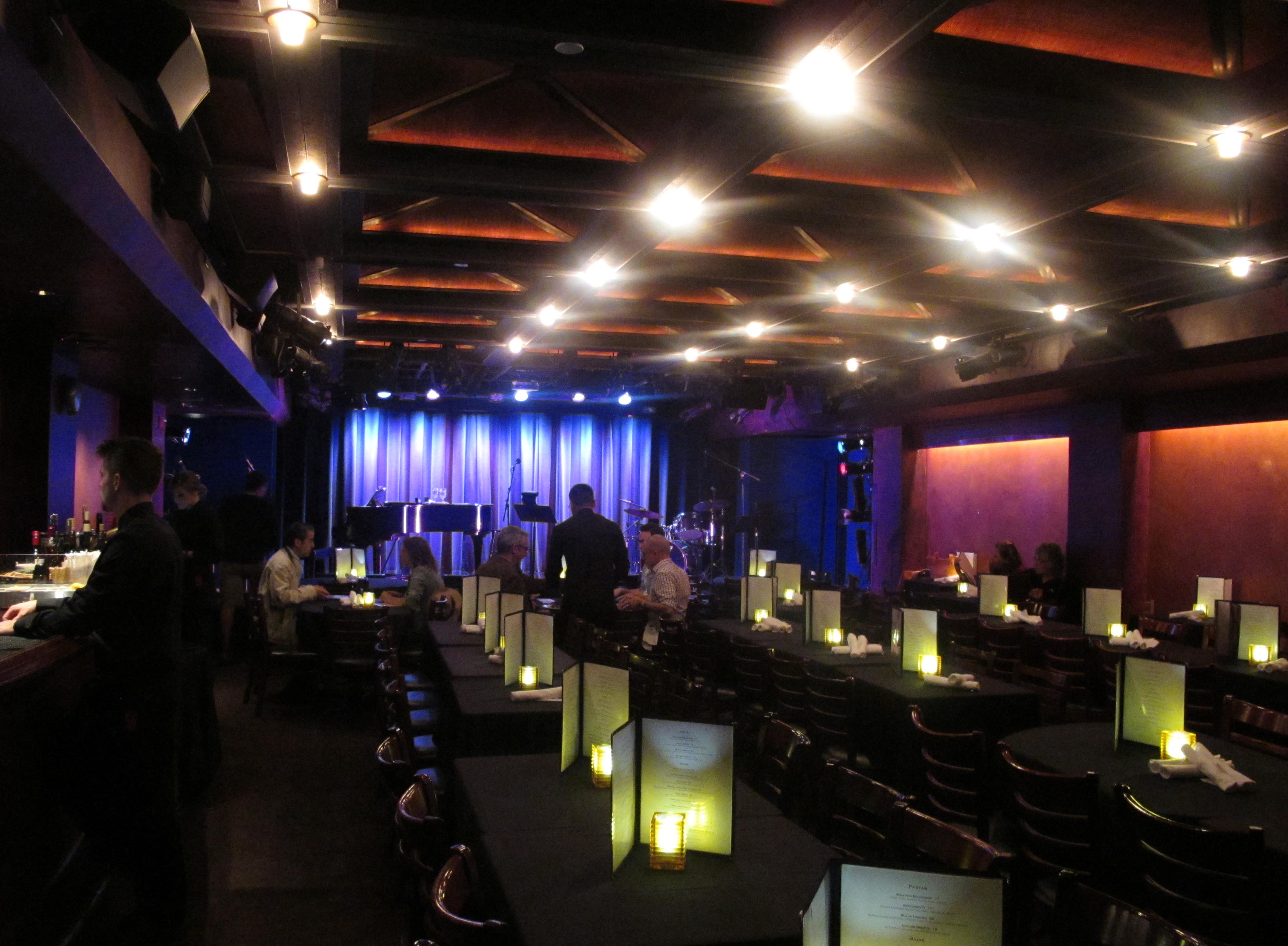 The interior of the Laurie Beechman Theater prior to a show October 9th, 2014